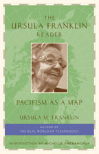 Cover photo of The Ursula Franklin Reader: Pacifism as a Map, license provided by the Toronto-based publishing company Between the Lines on July 22, 2008. Cover and text design by Jennifer Tiberio. Image supplied by Between the Lines.